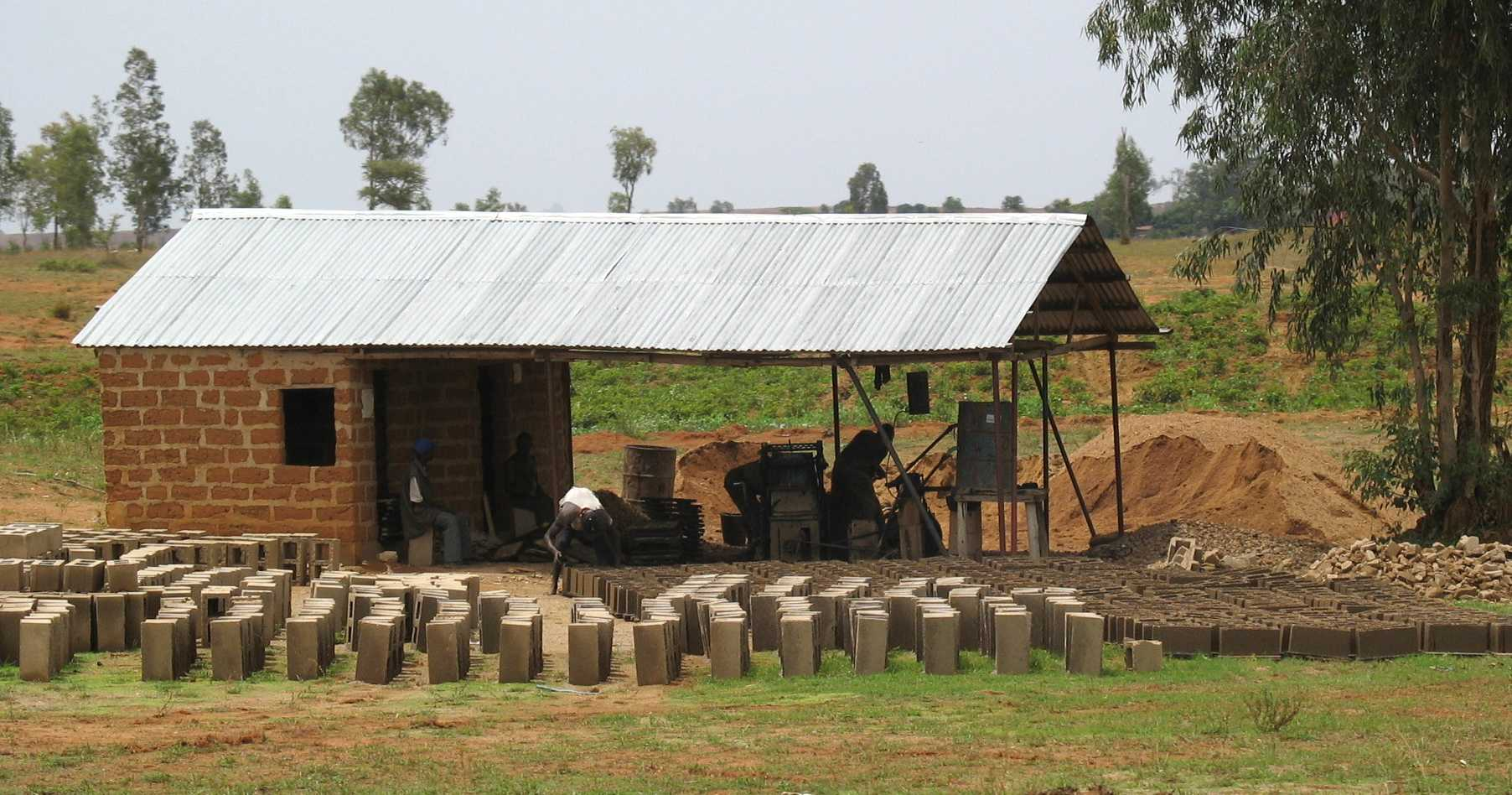 A concrete-block making factory in Nassarawa State, Nigeria.